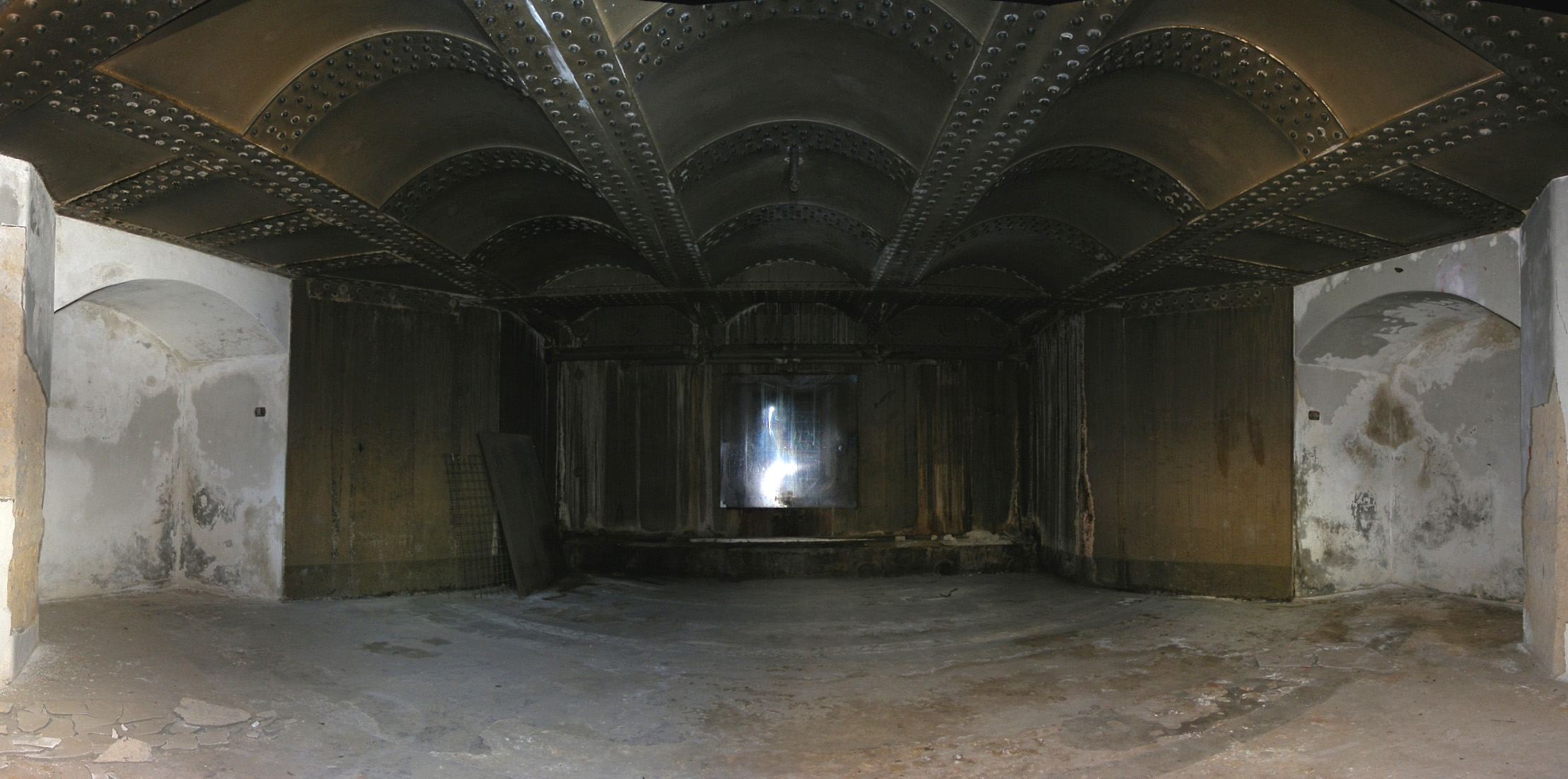 Georges Head Battery